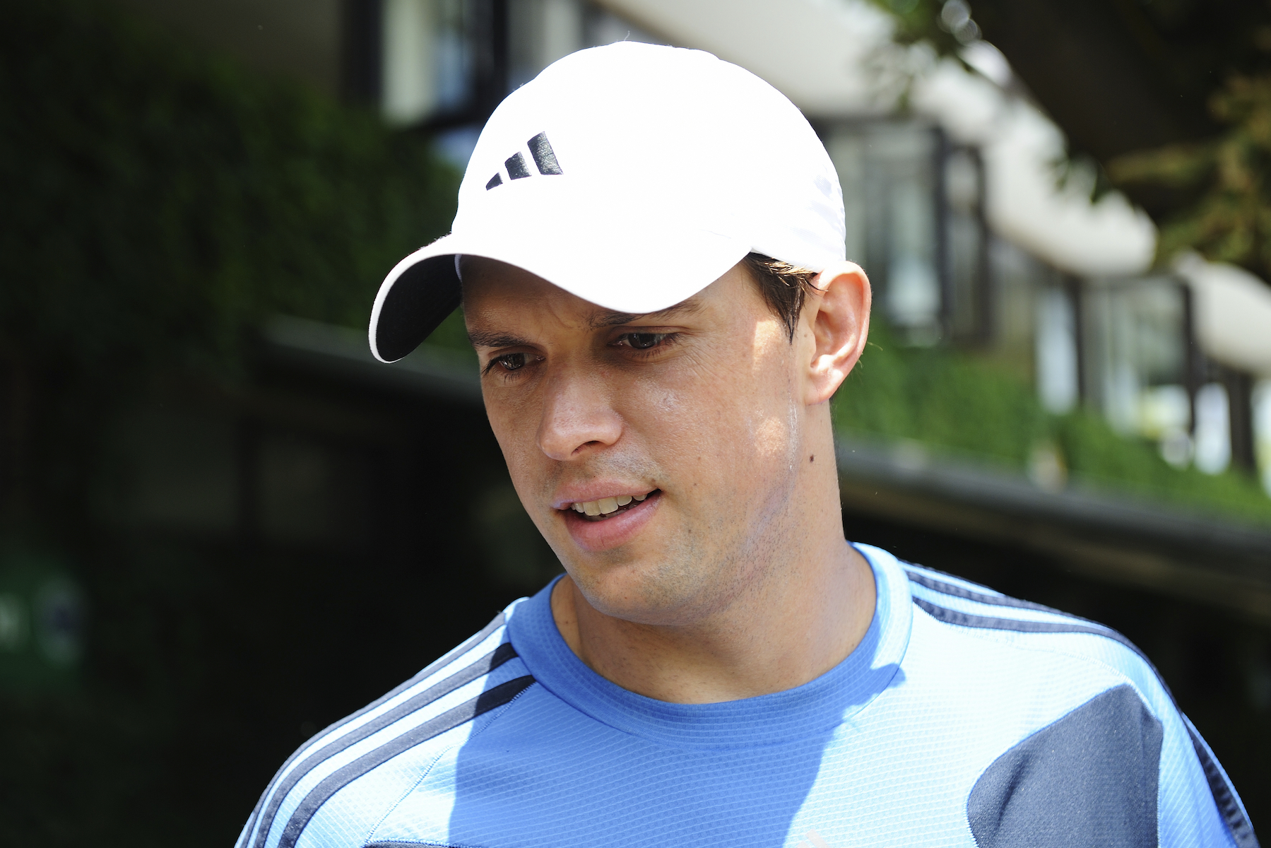 Bob Bryan during the 2009 Wimbledon Championships